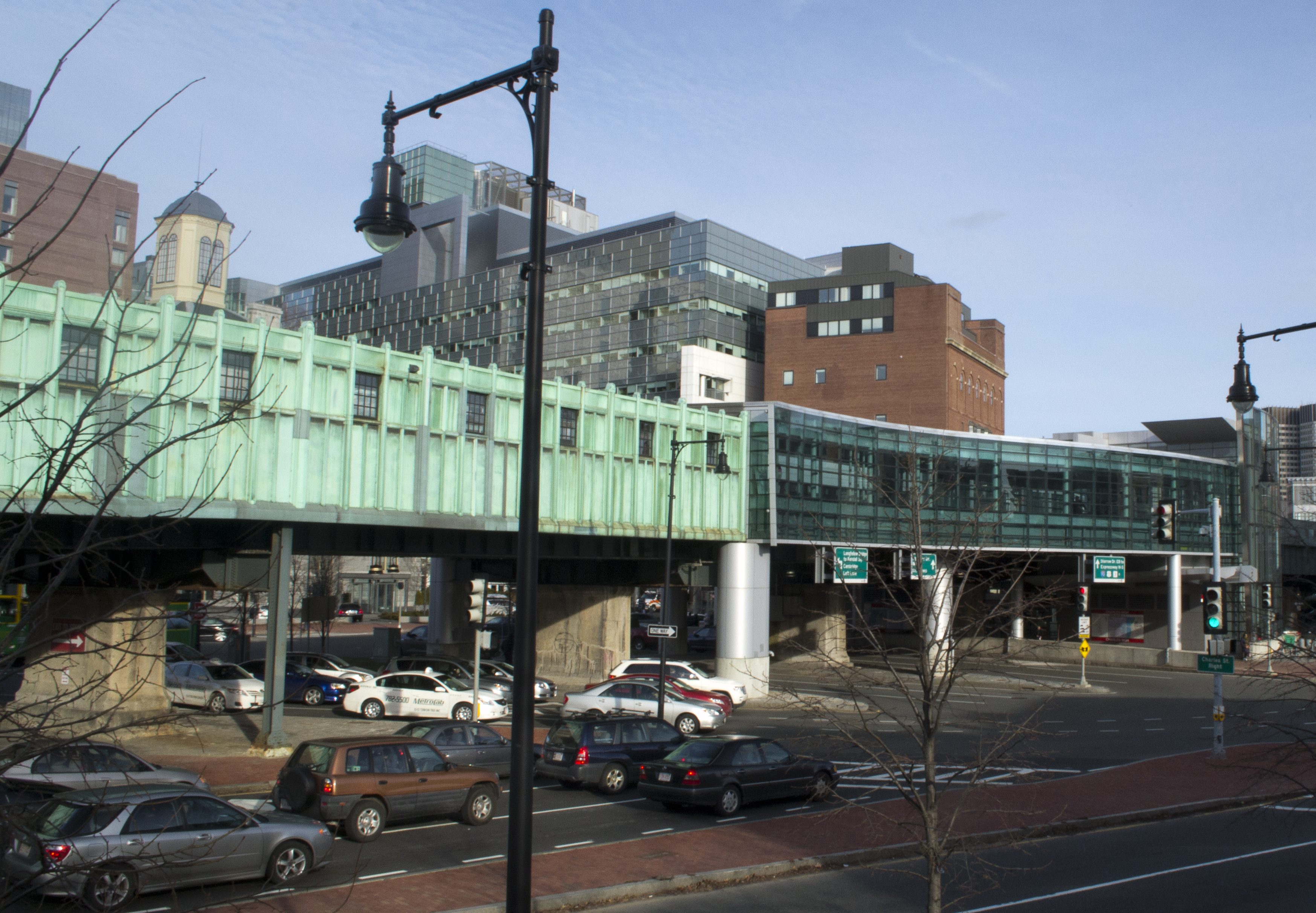 Charles/MGH station in January 2012